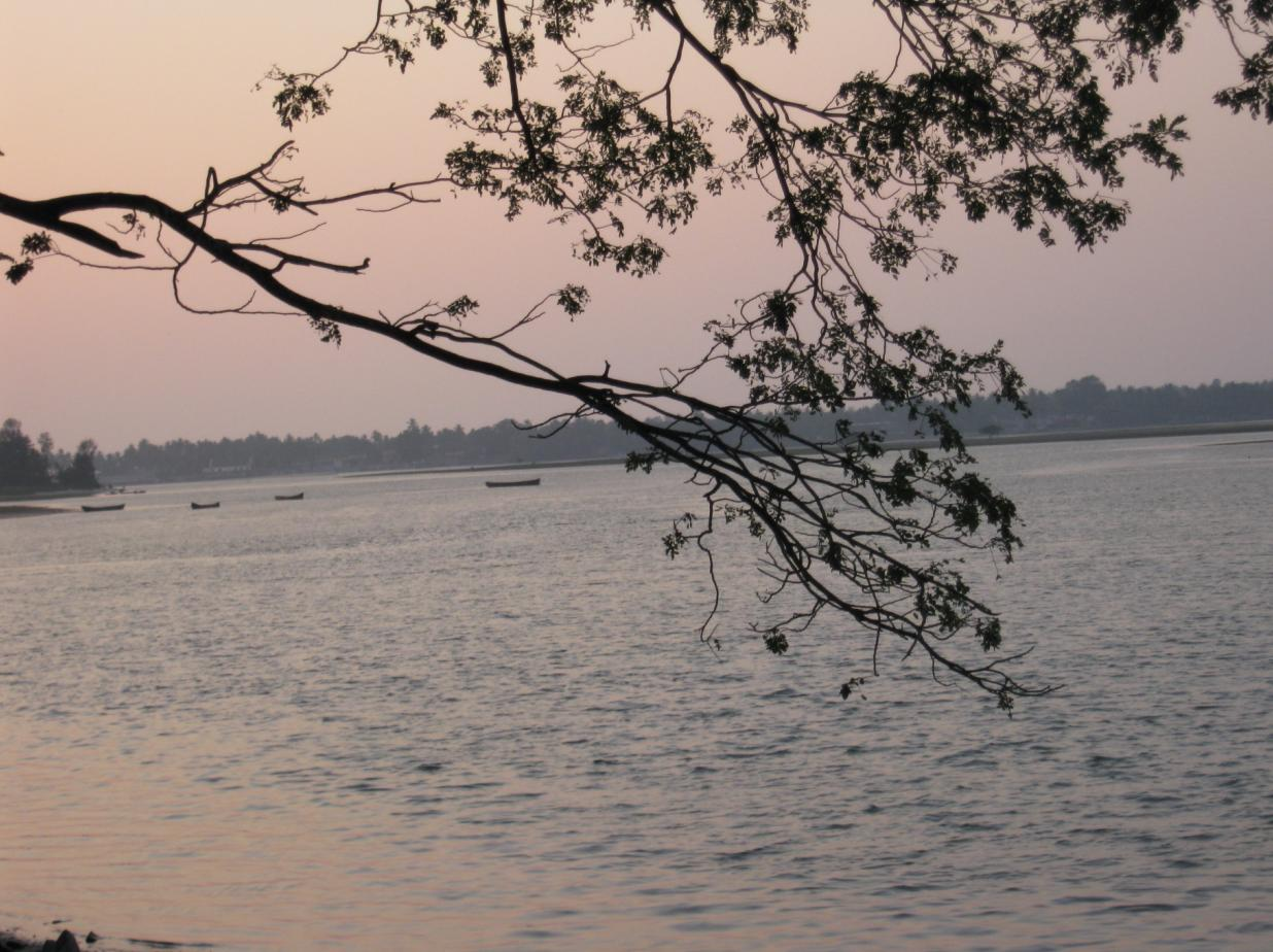 Kundapur River behind busstand